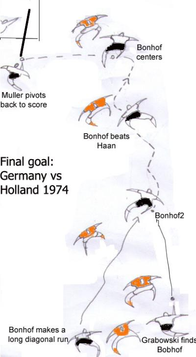 Final goal- Germany vs Holland 1974